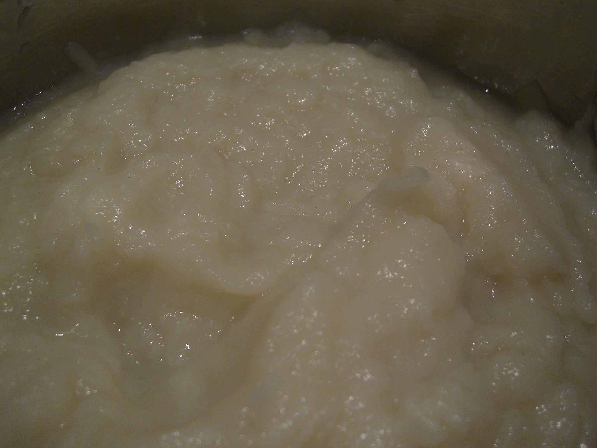 Cauliflower puree